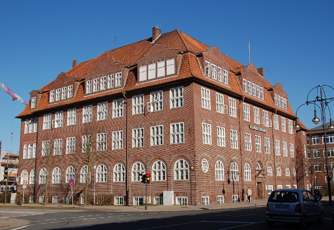 Pictures from Cuxhaven